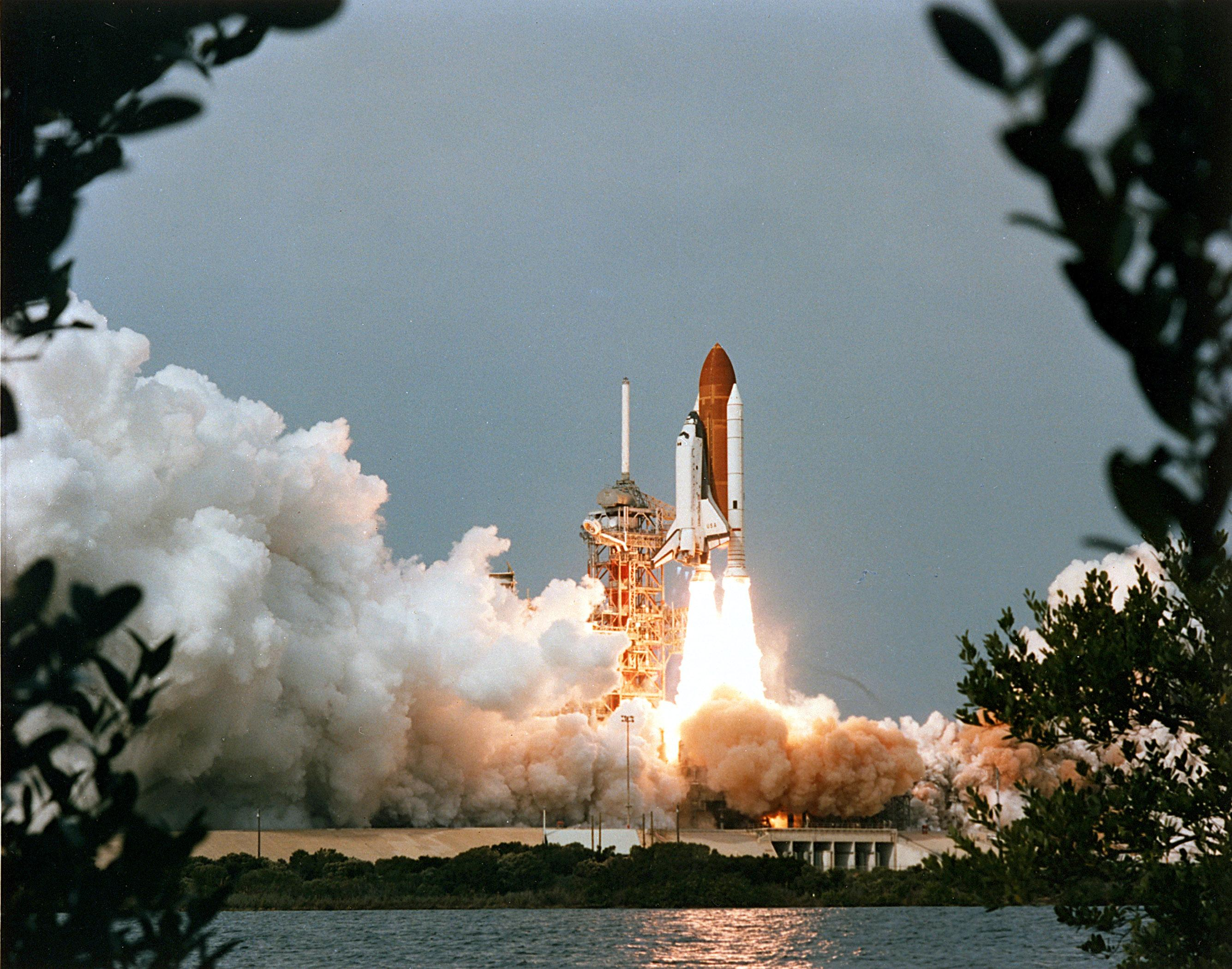 Columbia launches on mission STS-9 from Launch Pad 39-A. This is the first Shuttle flight with six crew members: Commander John W. Young, Pilot Brewster H. Shaw Jr., Mission Specialists Owen K. Garriott and Robert A.R. Parker, and Payload Specialists Byron K. Lichtenberg and Ulf Merbold, who is with the European Space Agency (ESA). The flight carries the first Spacelab mission and first astronaut to represent ESA.